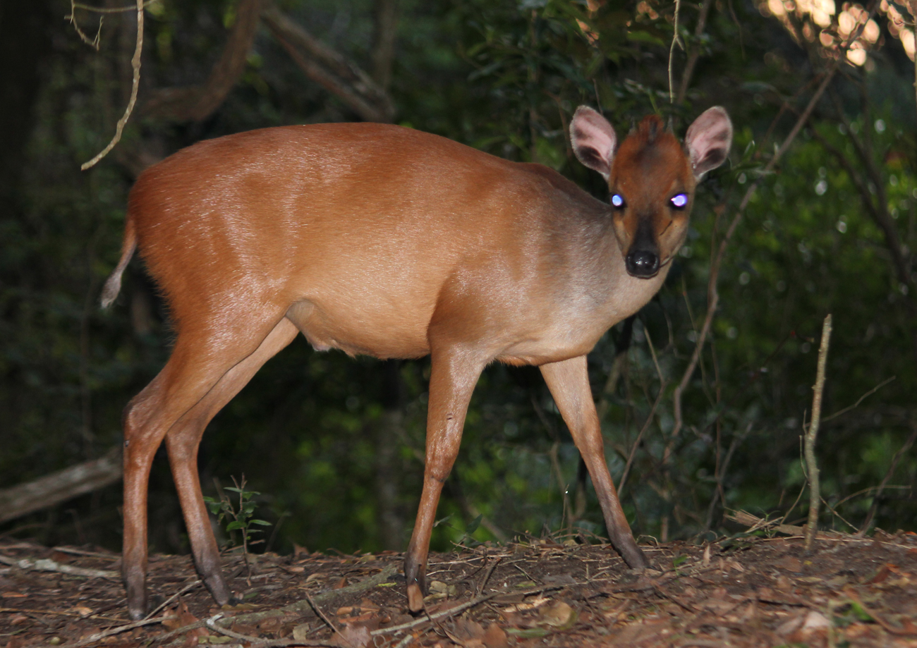 Cephalophus natalensis, Mtunzini, Kwa-Zulu Natal, South Africa